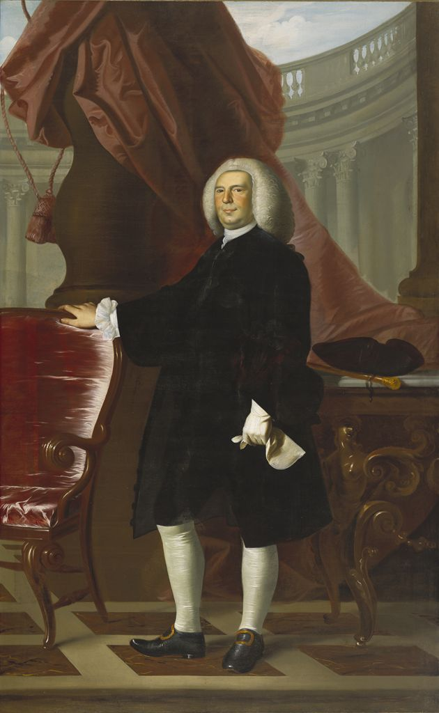 Portrait of Thomas Hancock (1703 - 1764), oil on canvas, Harvard University Portrait Collection, H22.